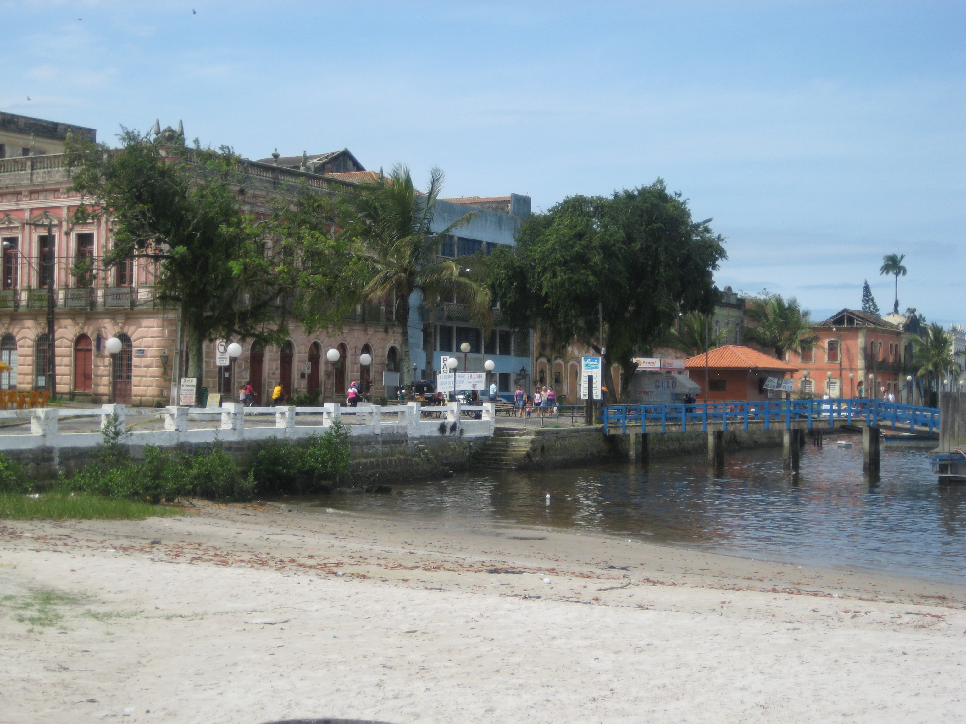 Old port of Paranaguá